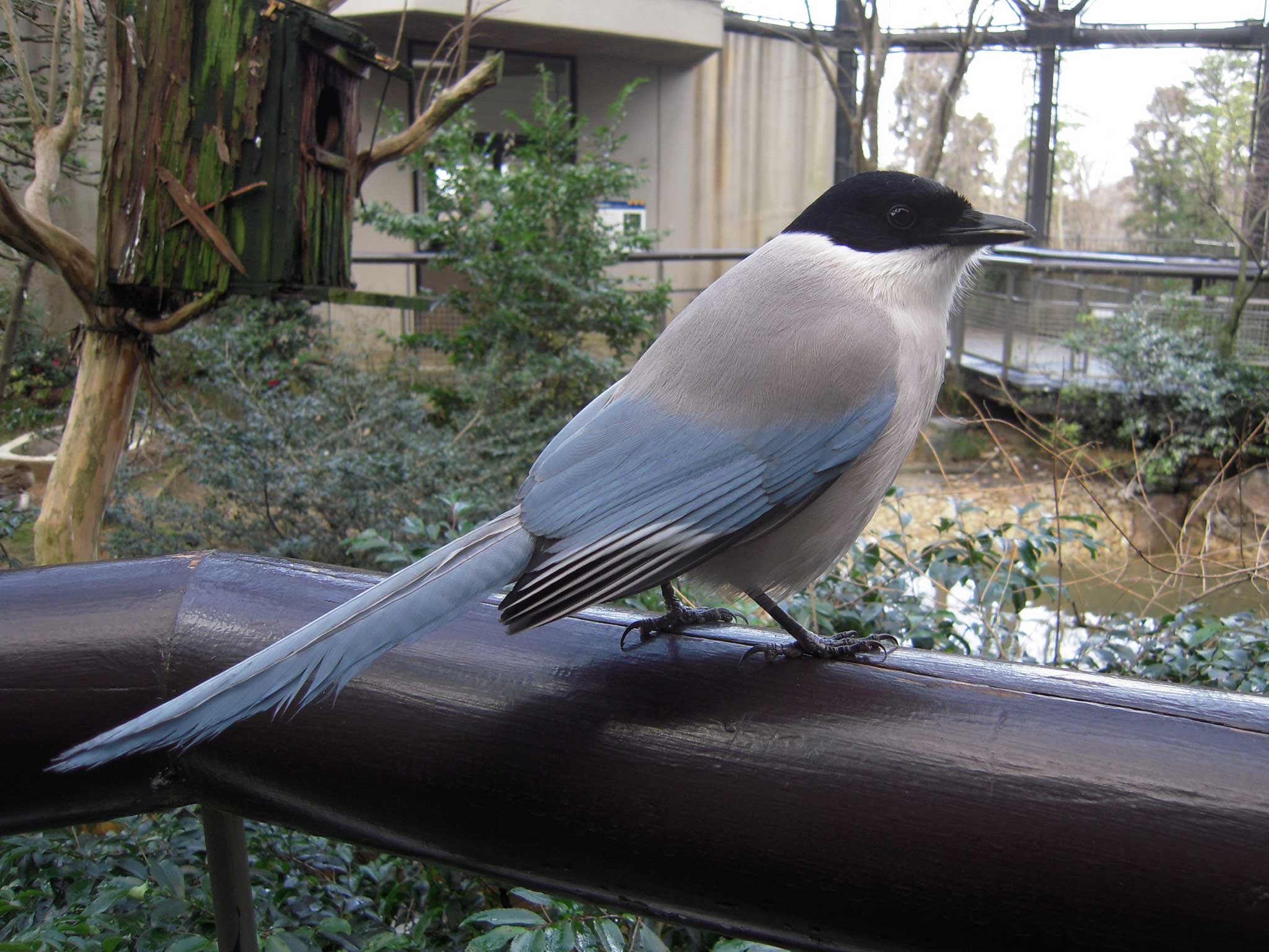 Azure-winged Magpie. Ishikawa zoo(Nomi,Ishikawa,Japan)